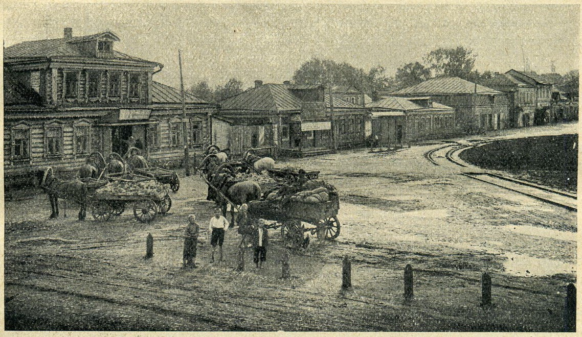 Vsekhsvyatskoe settlement